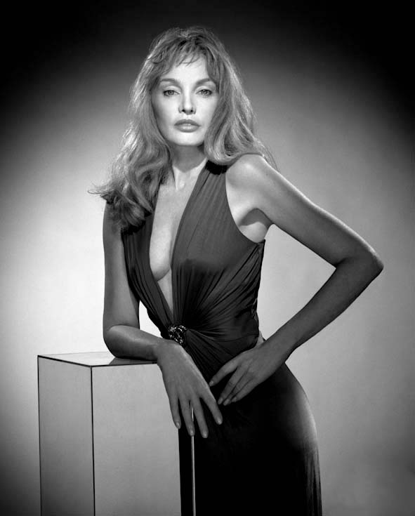 Arielle Dombasle photographed by Studio Harcourt Paris